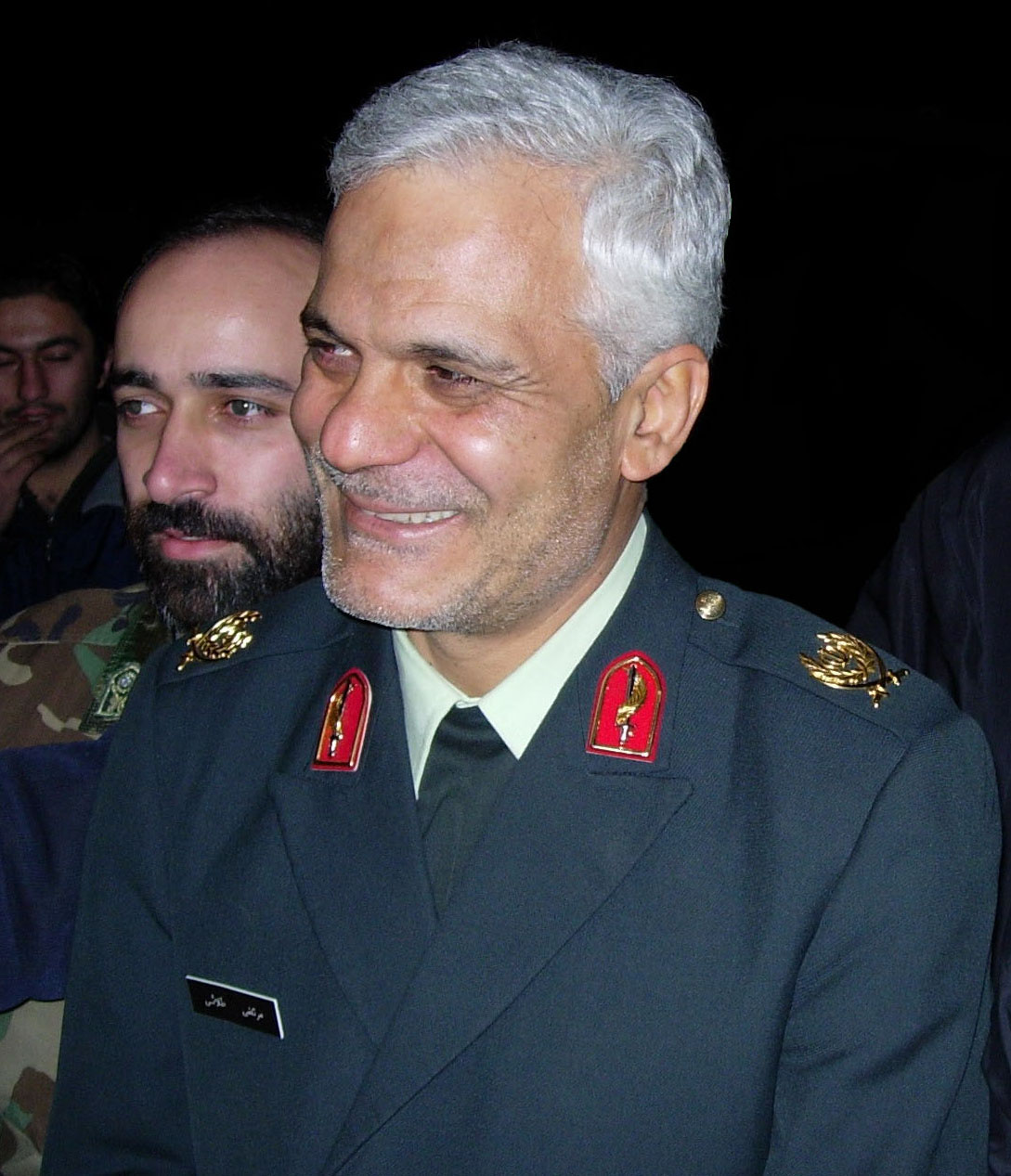 Brigadier general Morteza Talaie, retired commander of Tehran Police and current deputy chairman of the City Council of Tehran.